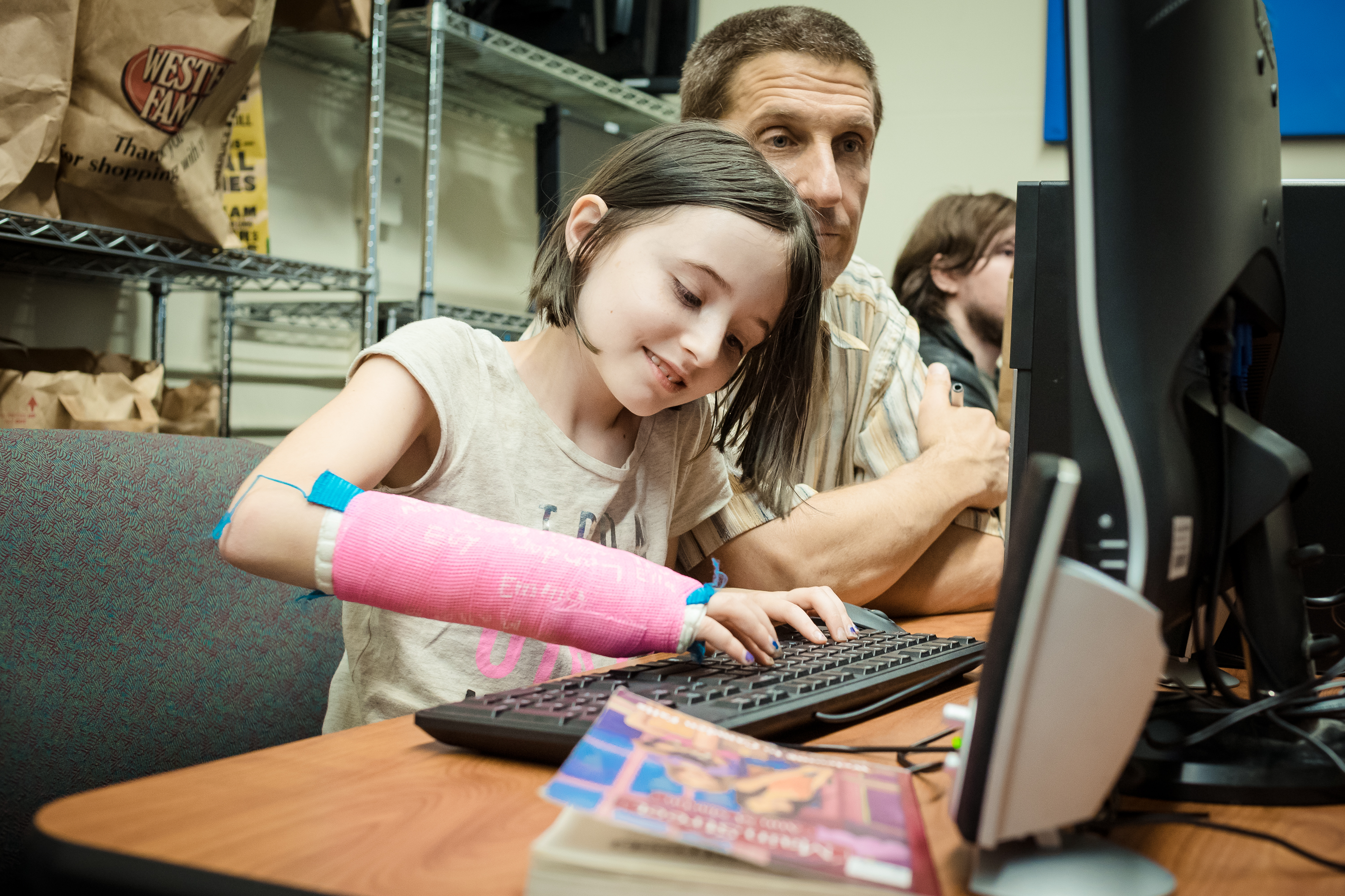 Young girl in a Free Geek class -Angela Holm Photography